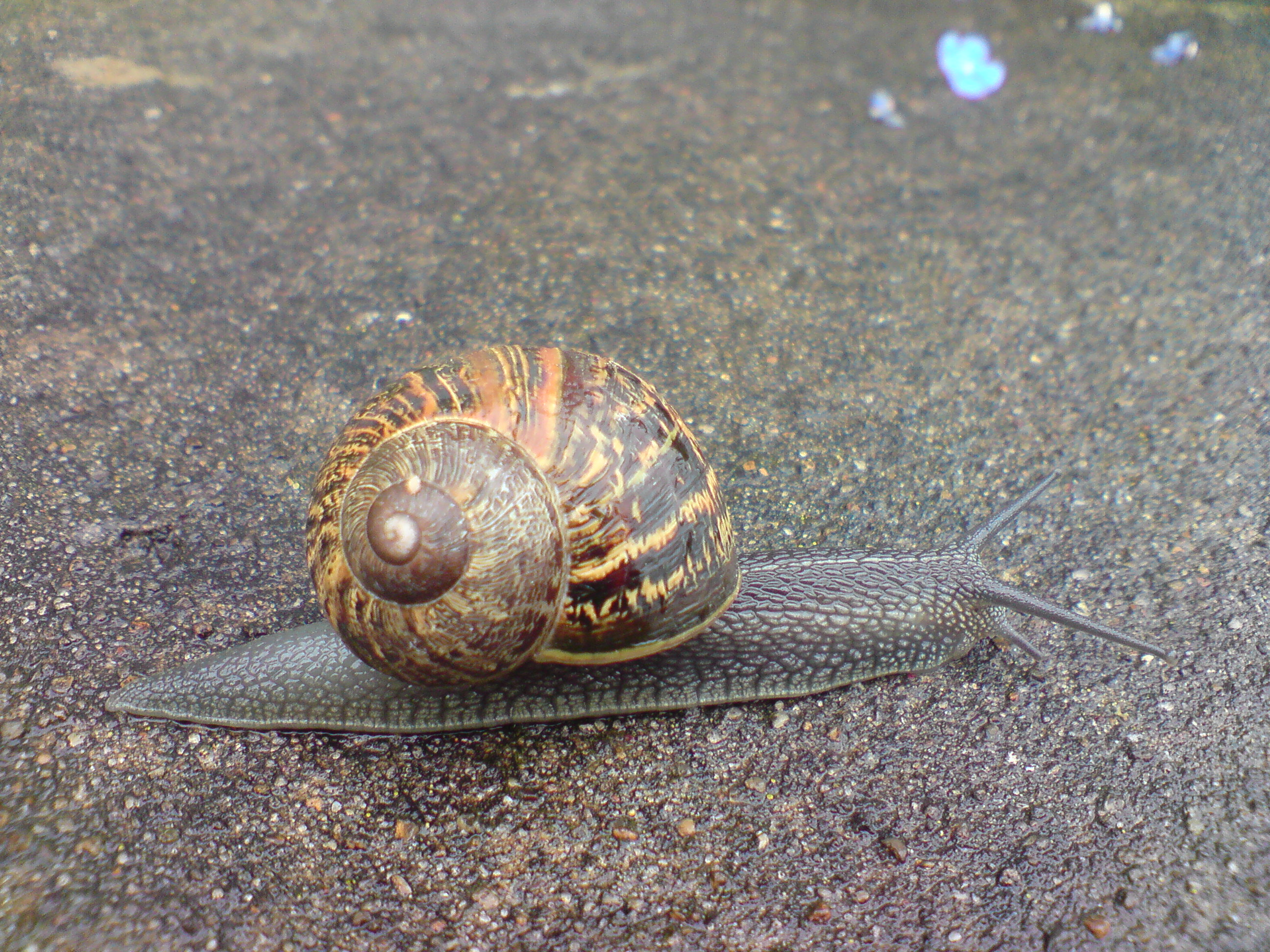 A Helix aspersa in Richmond Park, London, England.